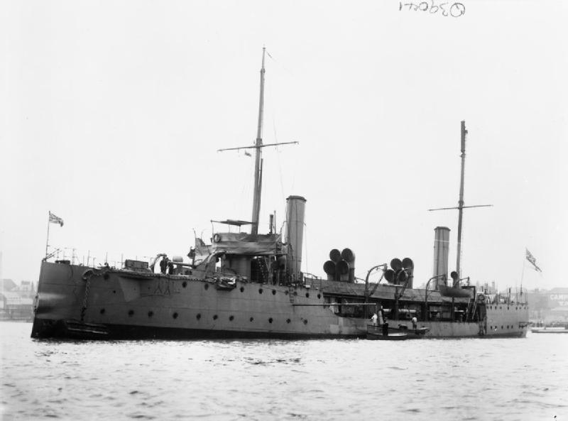 Photograph of British submarine tender HMS Hazard, originally built as a Halcyon class torpedo gunboat.